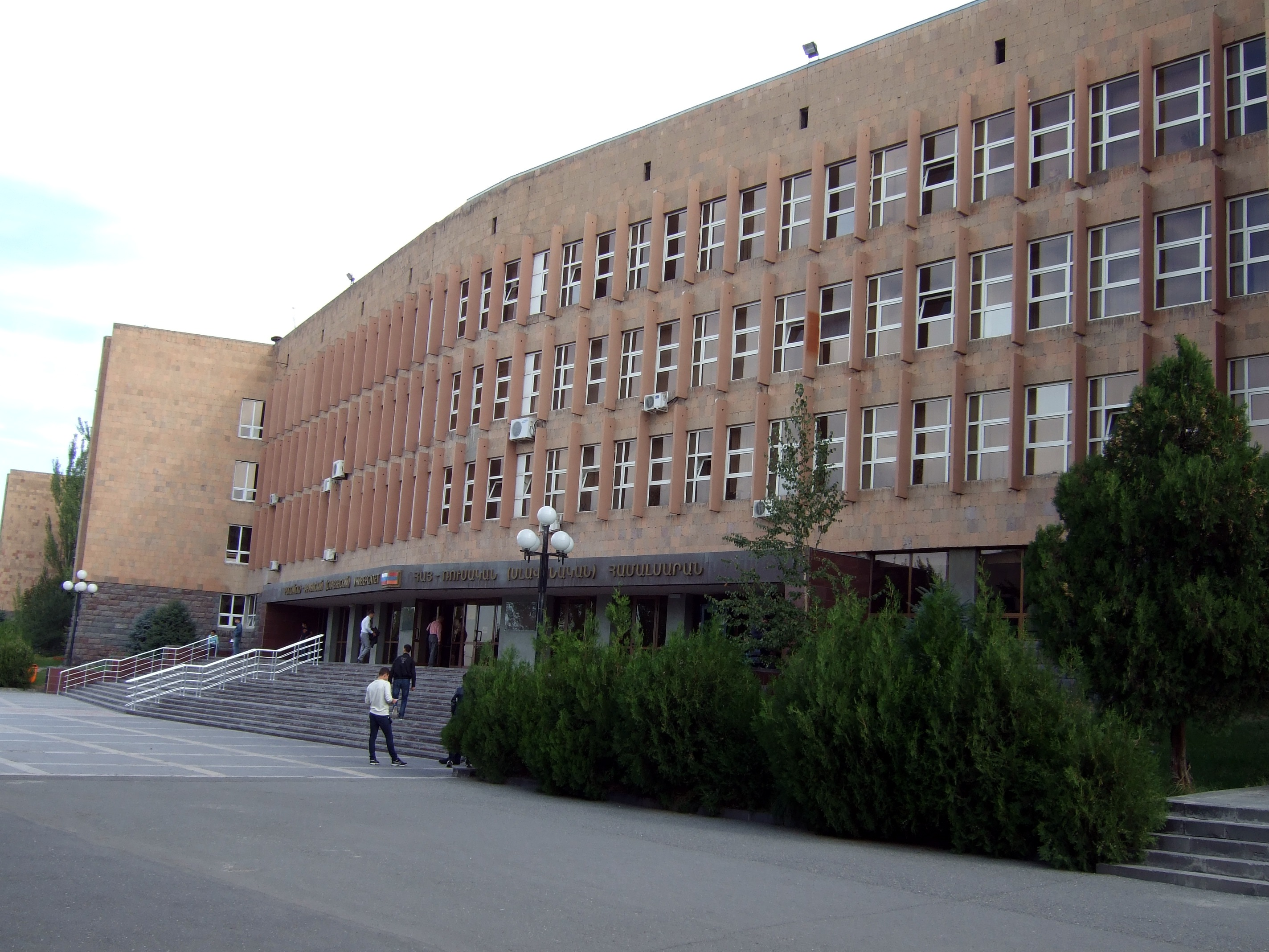 Russian-Armenian (Slavonic) University, Yerevan